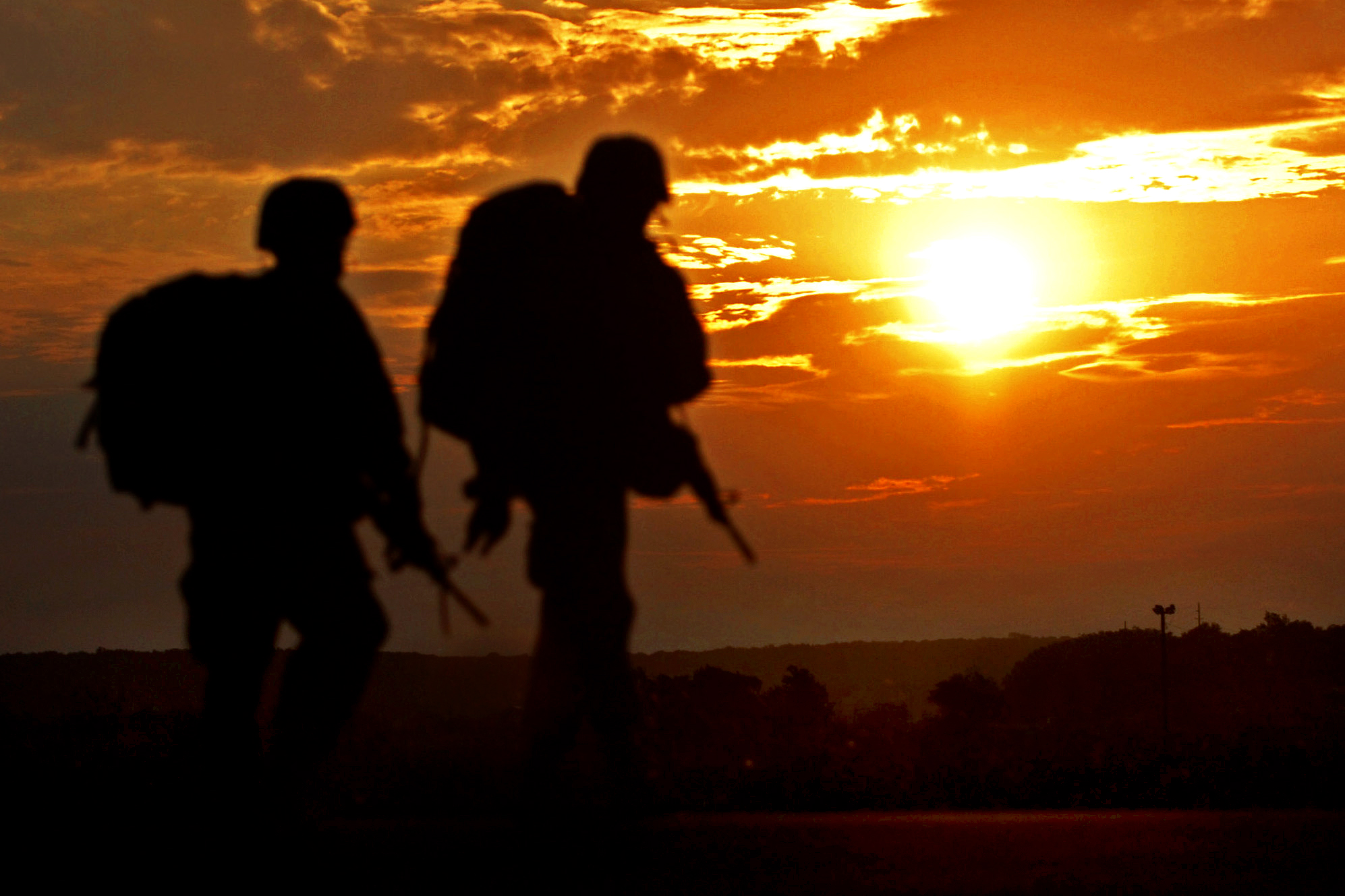 Two Soldiers with 2-8 Cav., 1BCT, 1st Cav. Div., reach the turnaround point, June 25, on the battalion’s 12 mile road march portion of the Iron Warrior Stakes competition. U.S. Army photo by Spc. Kim Browne, 1st Cav. Div. Public Affairs